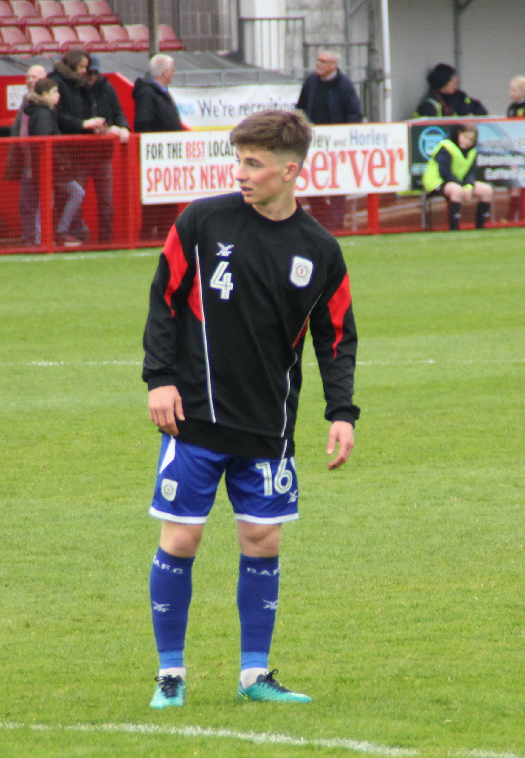 Tommy Lowery, during warm-up at Crawley Town, 28 April 2018